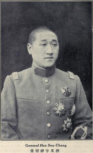 Xu Shuzheng (Hsu Seu-Cheng), Chinese warlord (1880 - 1925)